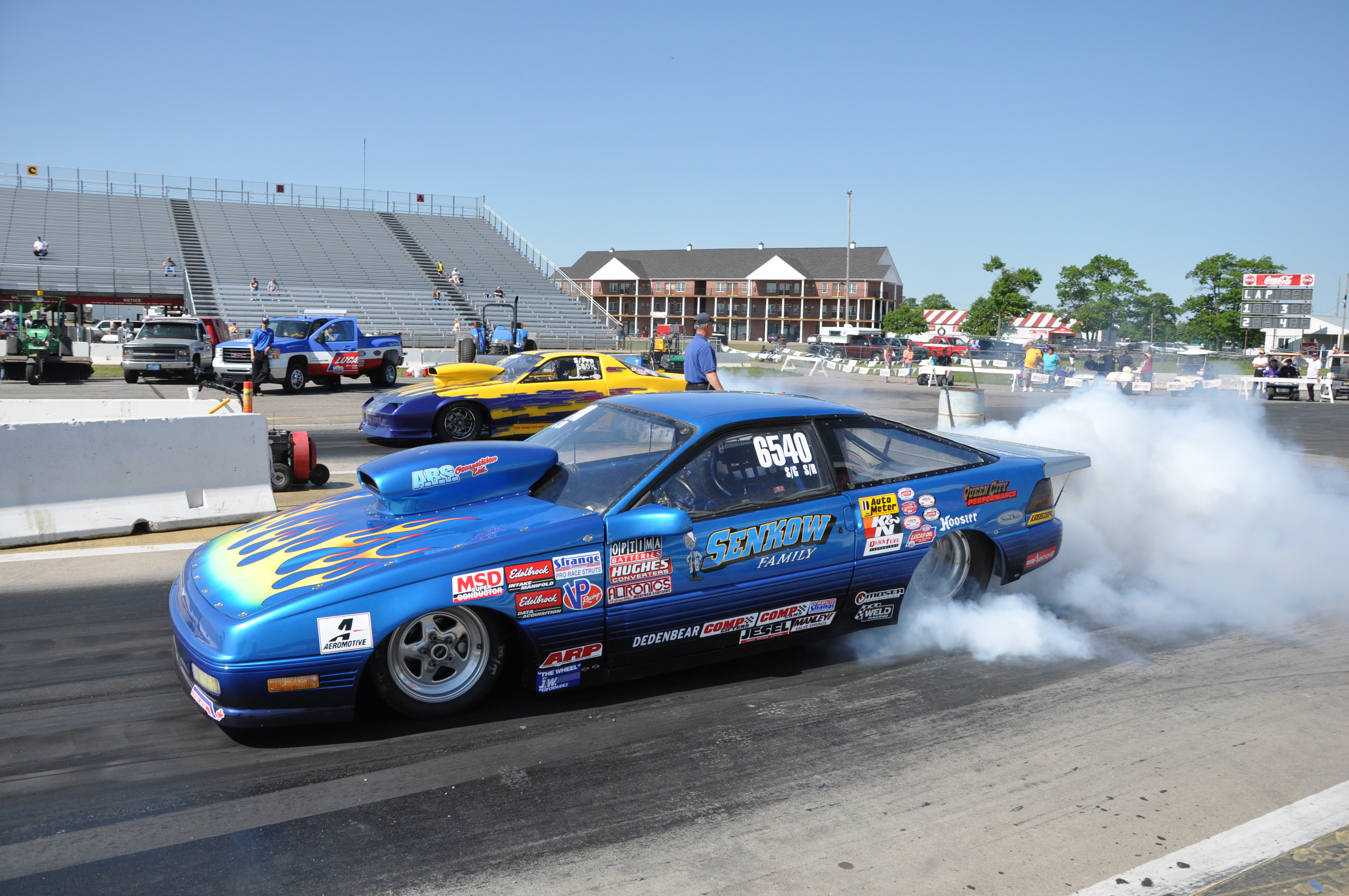 Senkow Family Racing Super Gas Ford Probe. Full Tube Chassis built just for racing. Races NHRA Super Gas and IHRA Super Rod. Racing here at BIR in 2012